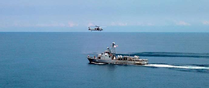 Georgian navy, 2007: Patrol boat Combattante II Dioskuria